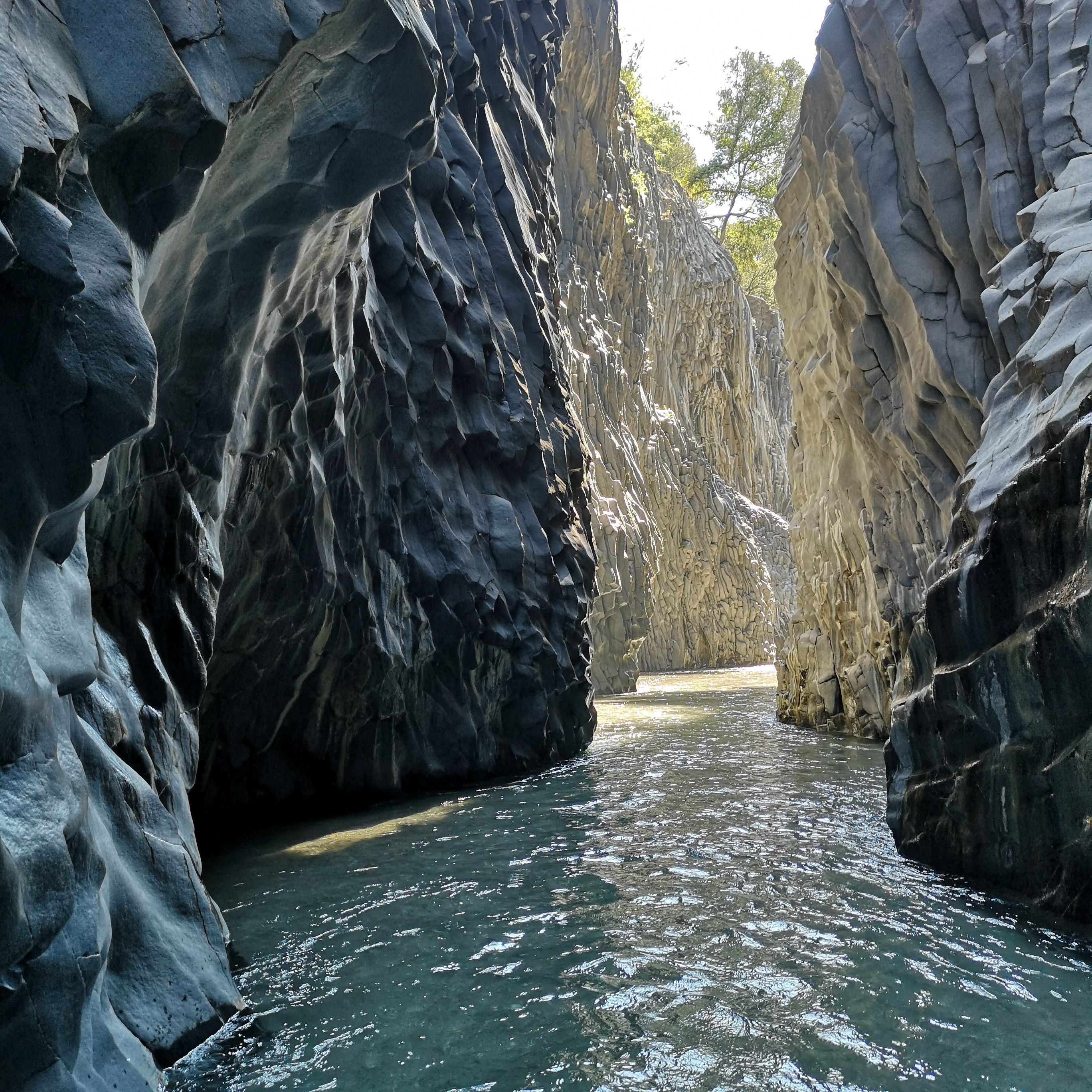 Alcantara Canyon, Sicily